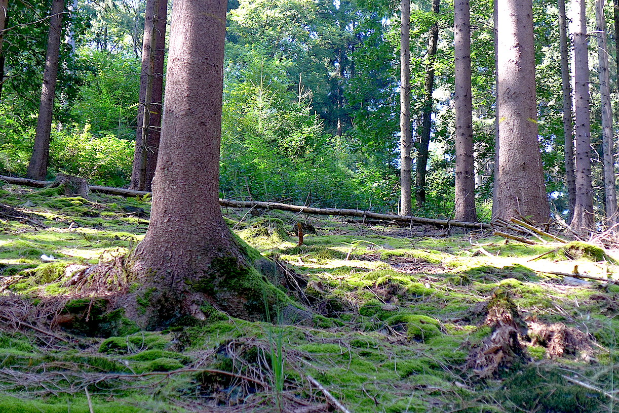 "Blade track" - the tourist marked route around the German city of Solingen (Northern Rhine-Westphalia). Second stage: Kohlfurth - Unterburg, 8,5 km.